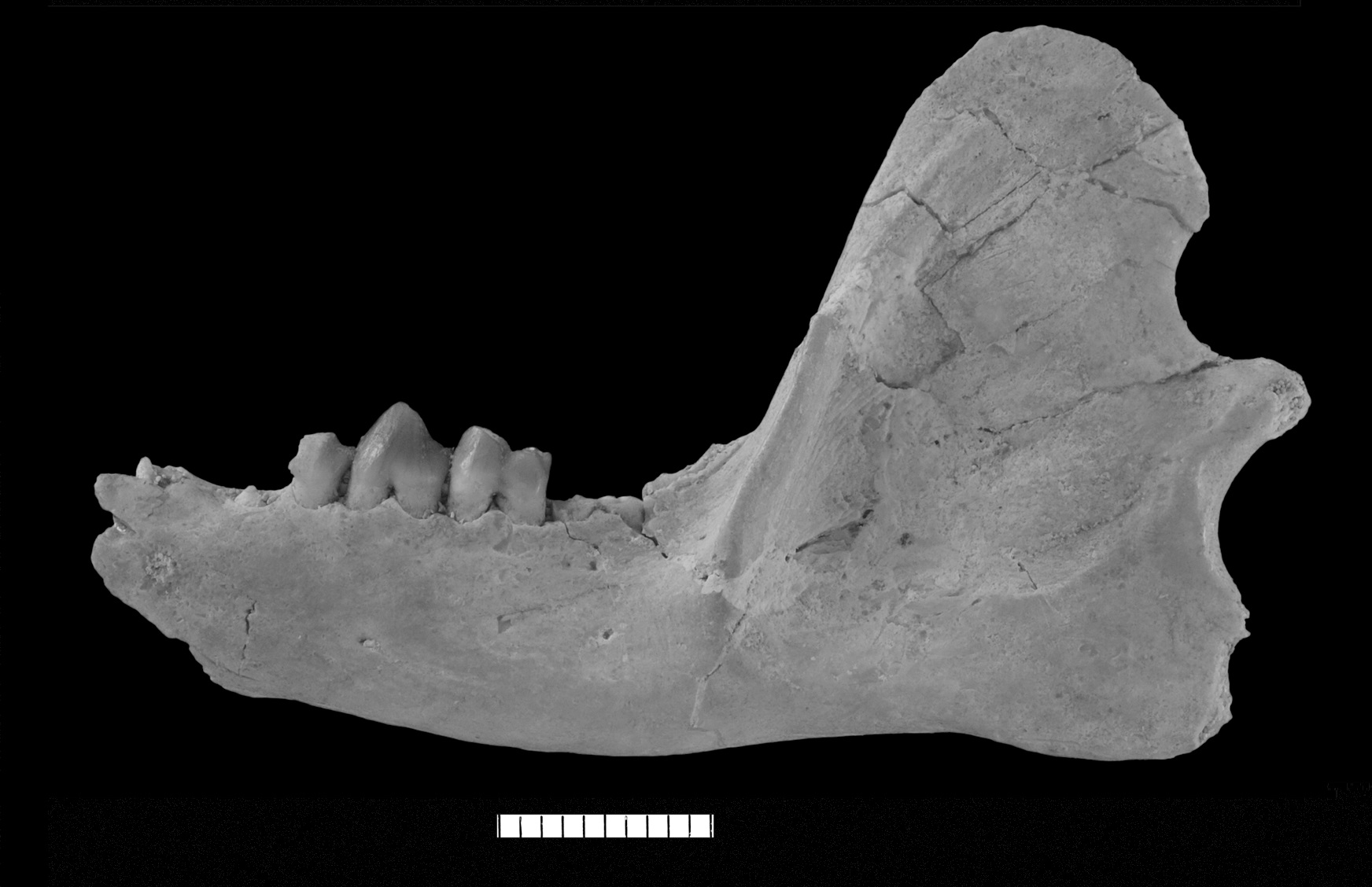 Abdounodus hamdii (MNHN.F PM92), left dentary bearing roots of M3 and M2, crown of M1, P4, P3 (damaged) and root of P2 or P1 or C1. Labial view. Scale bar = 10 mm.